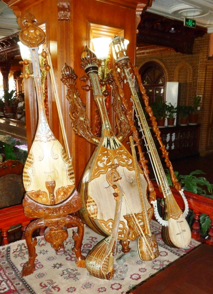 These Uyghur musical instyruments were on display in a Kashgar restaurant in June, 2011.